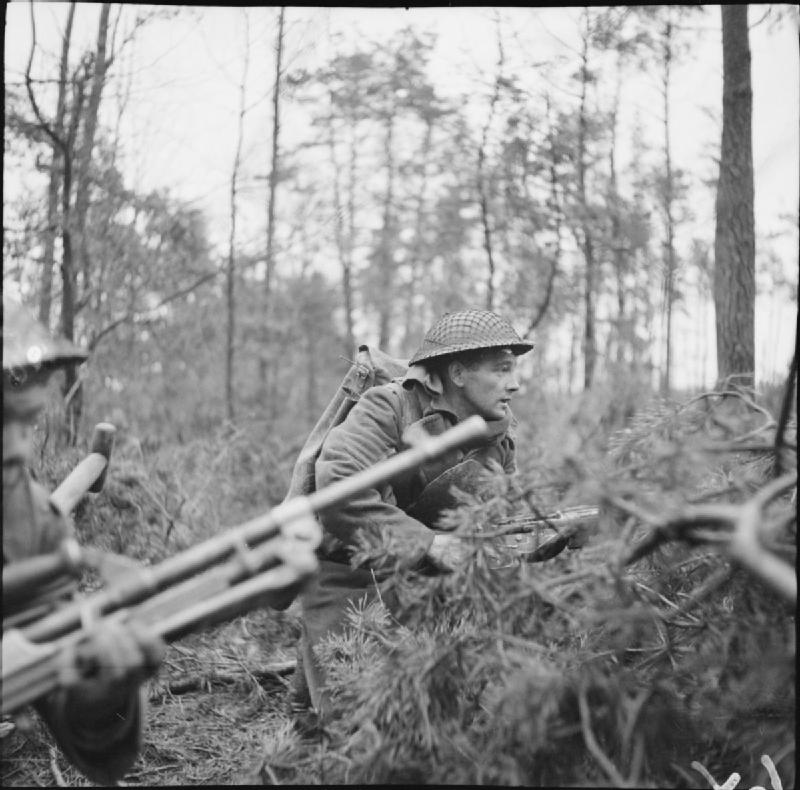 The British Army in North-west Europe 1944-45 Troops of the 5/7th Gordon Highlanders in the Reichswald, 9 February 1945.